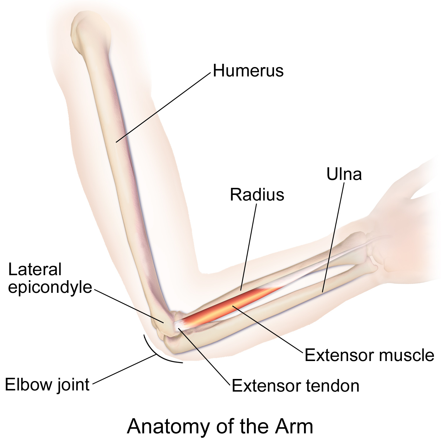 Upper Limb. Animation in the reference.[1]